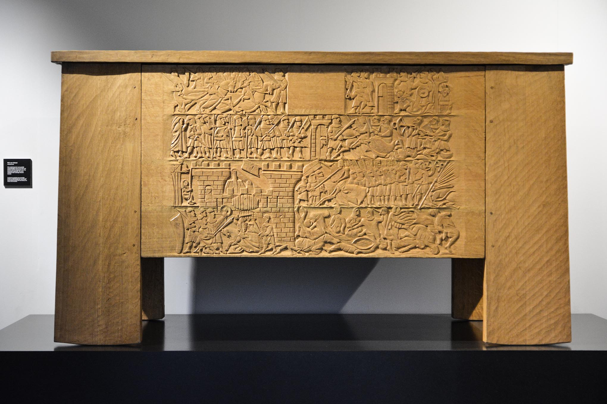 This is a complete reconstruction of a medieval chest, with a front face carving depicting scenes from the 1302 'Battle of the Golden Spurs' in Kortrijk, Flanders (now Belgium). Known in Kortrijk as the 'Kist van Oxford' (Chest of Oxford), the remains of the original chest (the carved face) having been discovered in New College, Oxford, in 1905, where it is known as the Courtrai Chest.